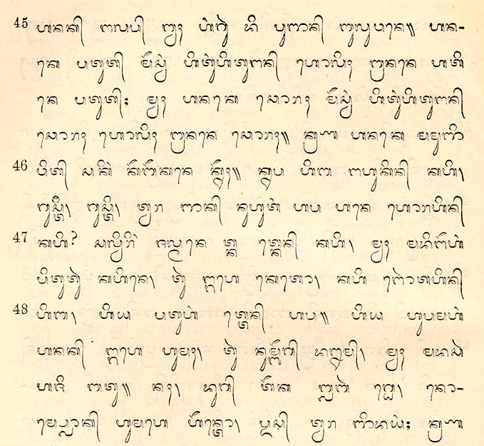 A bible from 1910 printed with Balinese script, now in the collection of Ramseyer-Northern Bible Society Collection.